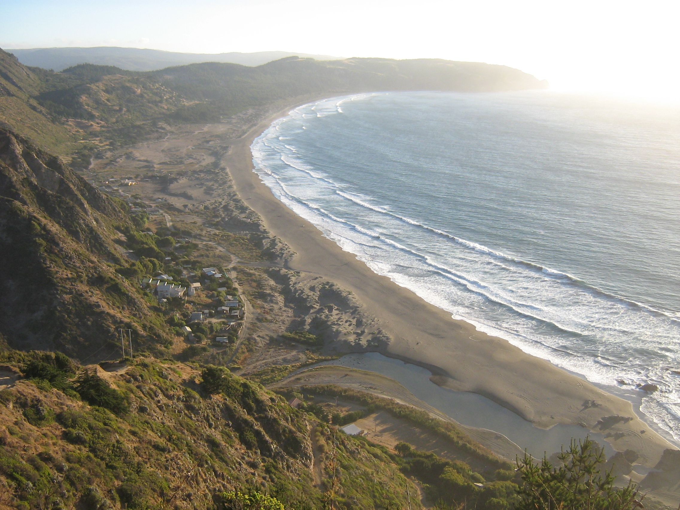 Puertecillo Beach, Commune of Navidad, Province of Cardenal Caro, 6th Region, Chile.